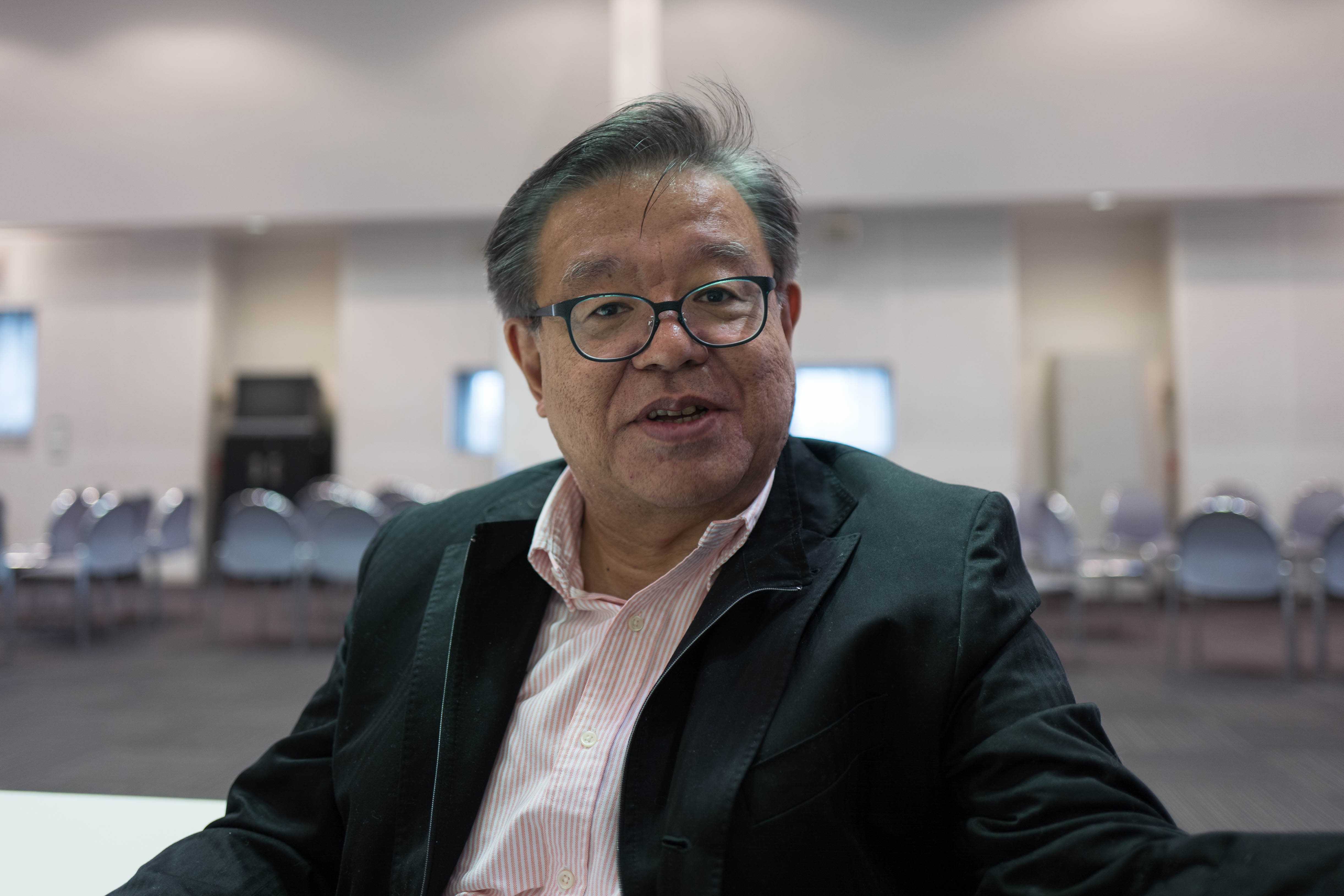 Jun Murai, Dean of the Faculty of Environment and Information Studies, Keio University, attended the Center of Innovation -- Under One Roof, Just Two Days at the Youth Education National Olympics Memorial Youth Center in Shibuya Ward, Tōkyō Metropolis on January 30, 2016.